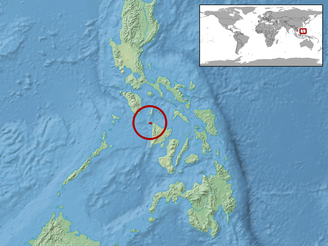 geographic distribution of Luperosaurus corfieldi (Native: Philippines)